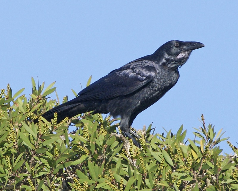 Corvus coronoides Nominate race Corvus coronoides coronoides Centiennal Park, Sydney, NSW, Australia 12th. February 2008 Distribution: 690V2349